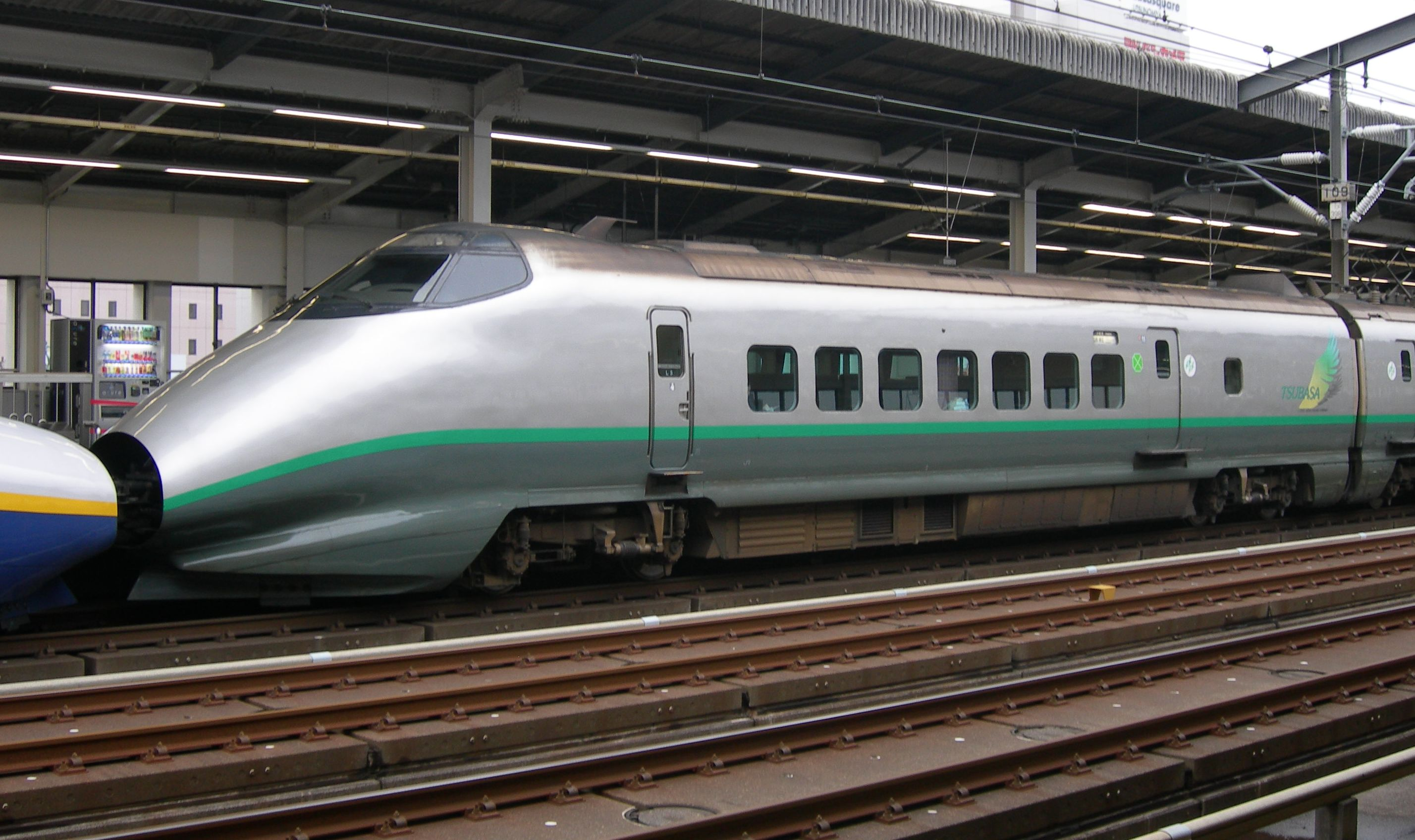 JR East 400 series shinkansen car 411-3 (car 11) of set L3 at Utsunomiya Station